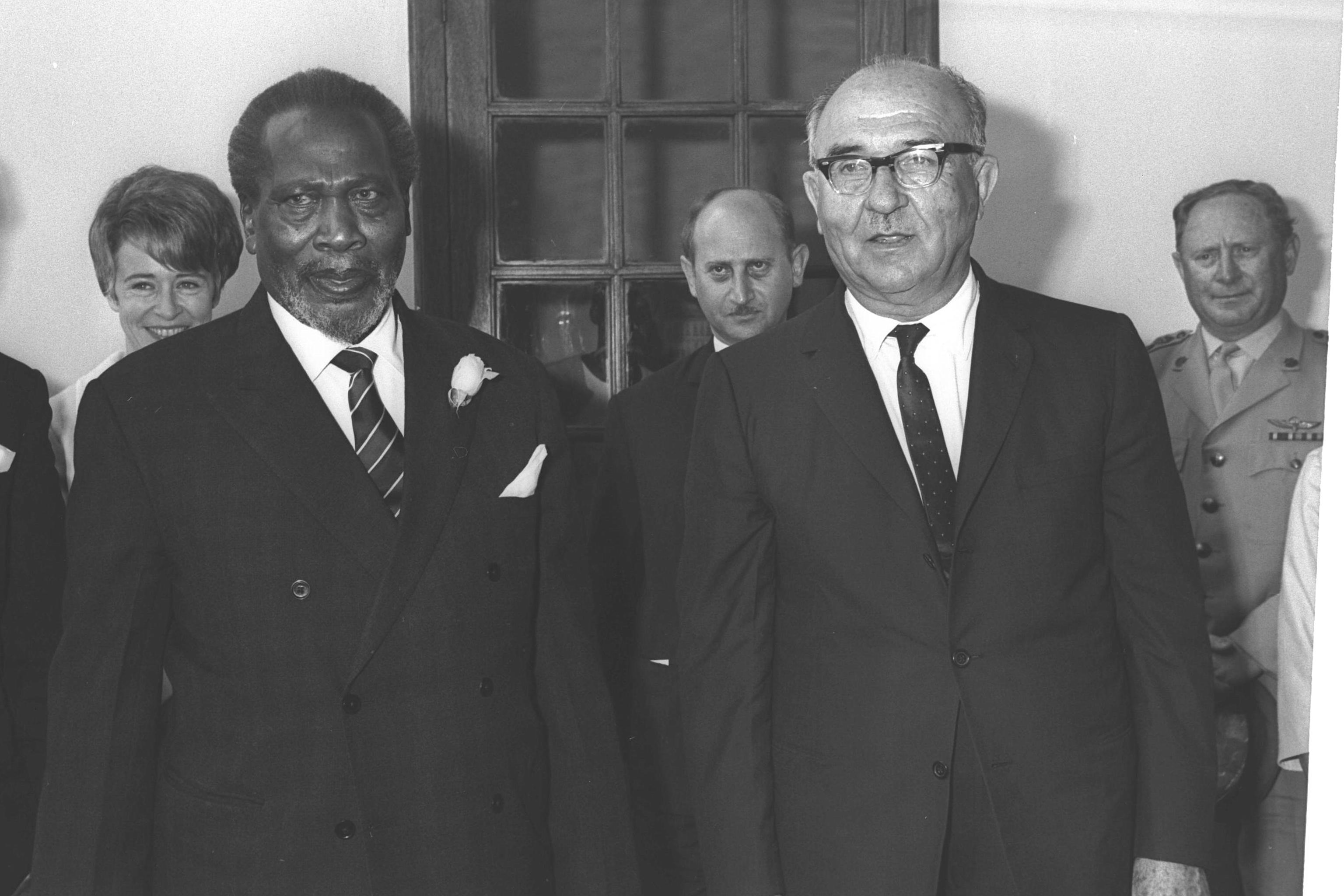 P.M. LEVY ESHKOL AND KENYA PRESIDENT JOMO KENYATTA AT STATE HOUSE IN NAIROBI, KENYA